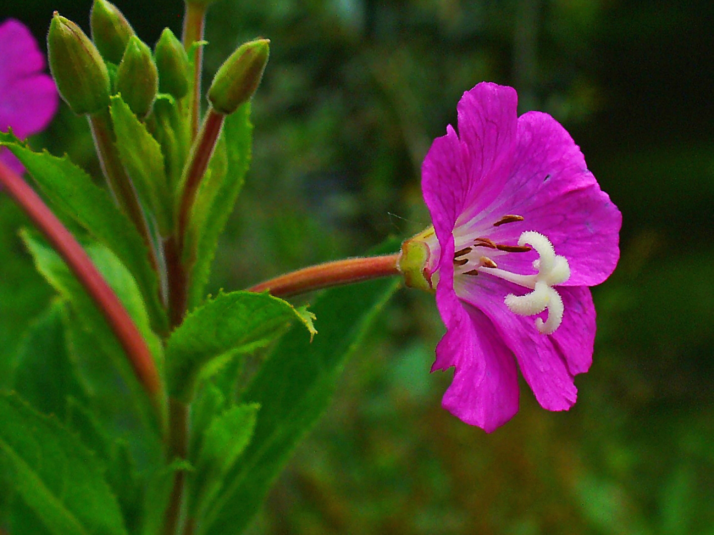 Epilobium hirsutum, Onagraceae, Great Hairy Willowherb, flower; Karlsruhe, Germany.